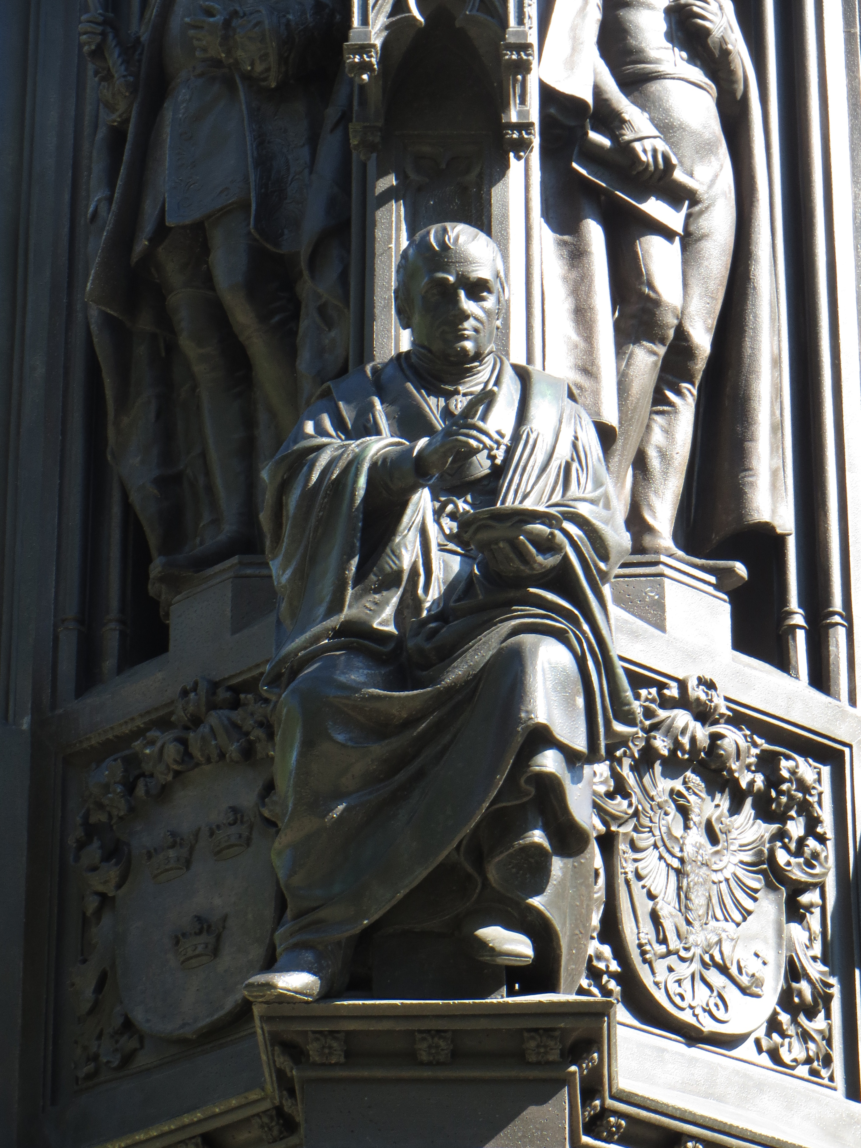 Statue of Friedrich August Gottlob Berndt representing the Medical Faculty on the Rubenow Monument in Greifswald